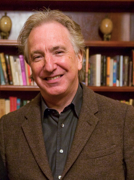 Alan Rickman at a Hudson Union Society event in December 2009.